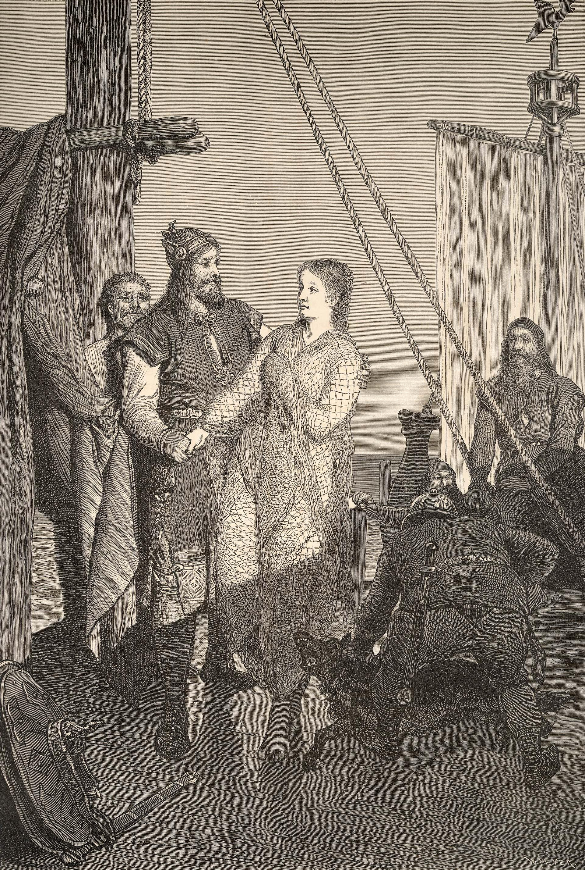 Rayner Lothbroc and Kraka